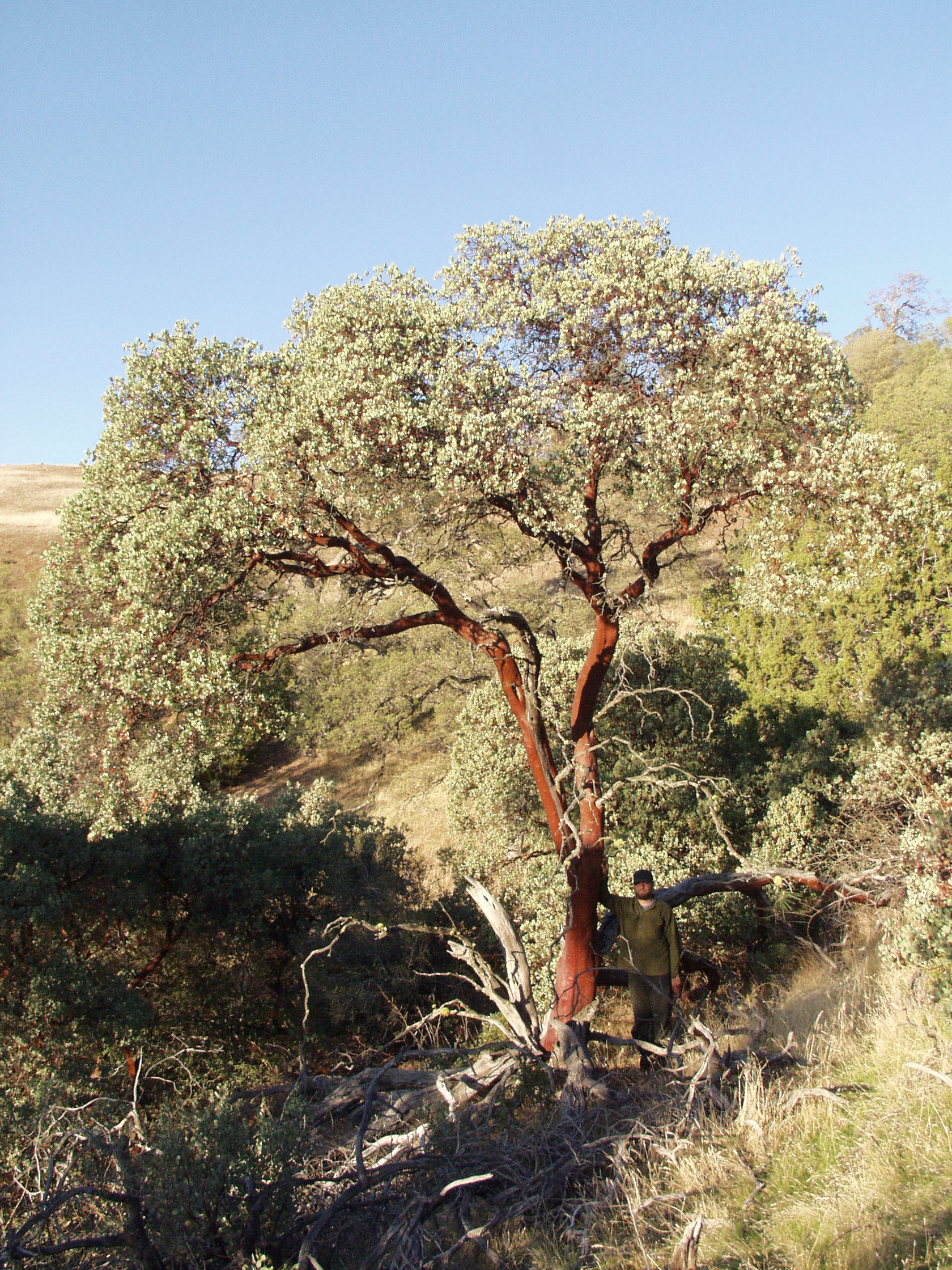 Arctostaphylos glauca — bigberry manzanita; tree-sized specimen. On Cedar Mountain, a northern Diablo Range peak located in Del Valle Regional Park, Alameda County, eastern S.F. Bay Area, California.